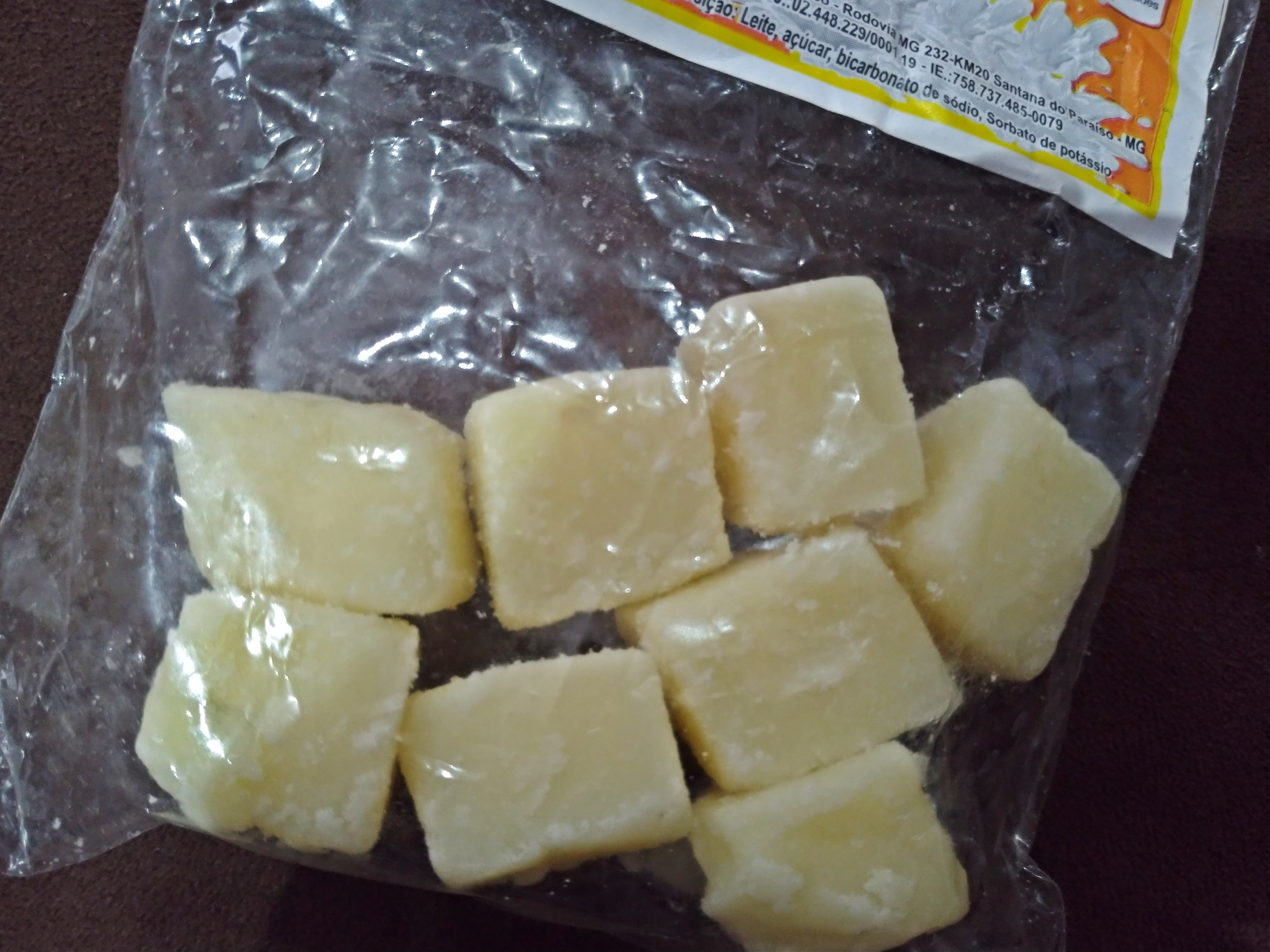 Milk sweet cutting produced in Santana do Paraíso, Minas Gerais, Brazil.